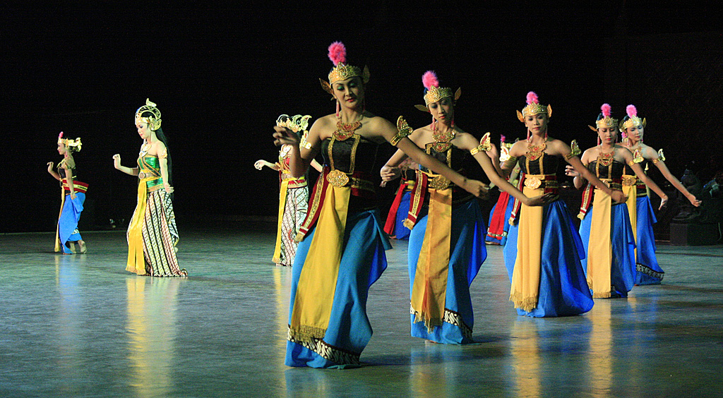 Javanese dance featuring Ramayana Ballet. In this scene Shinta (Rama's wife, second from left) is held as prisoner in Alengka palace garden by King Rahwana, she is surrounded by princess, ladies in waiting and servants.